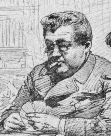 August Förster, director of the Wiener Burgtheater